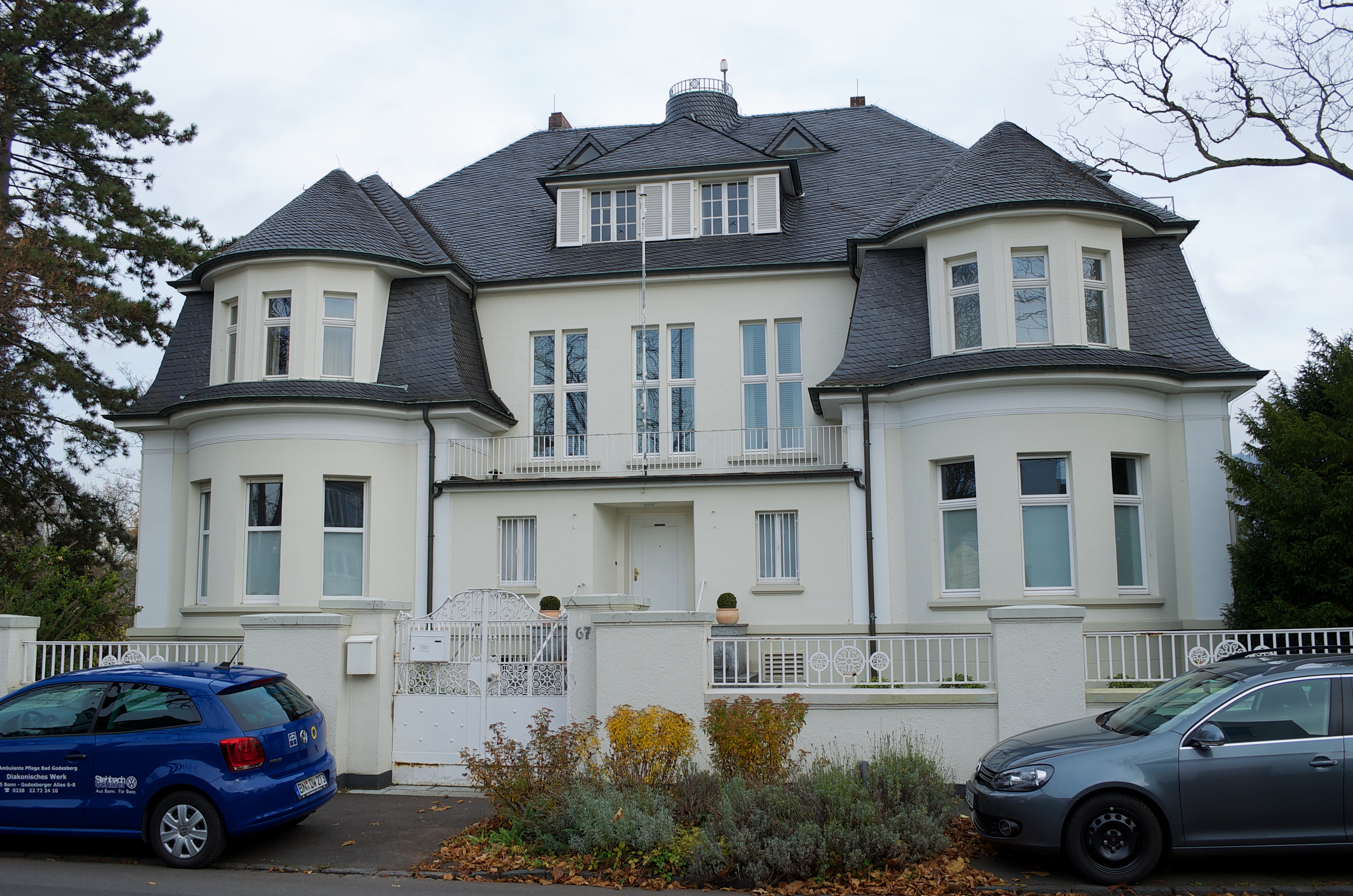 Cultural heritage monument in Bad Godesberg